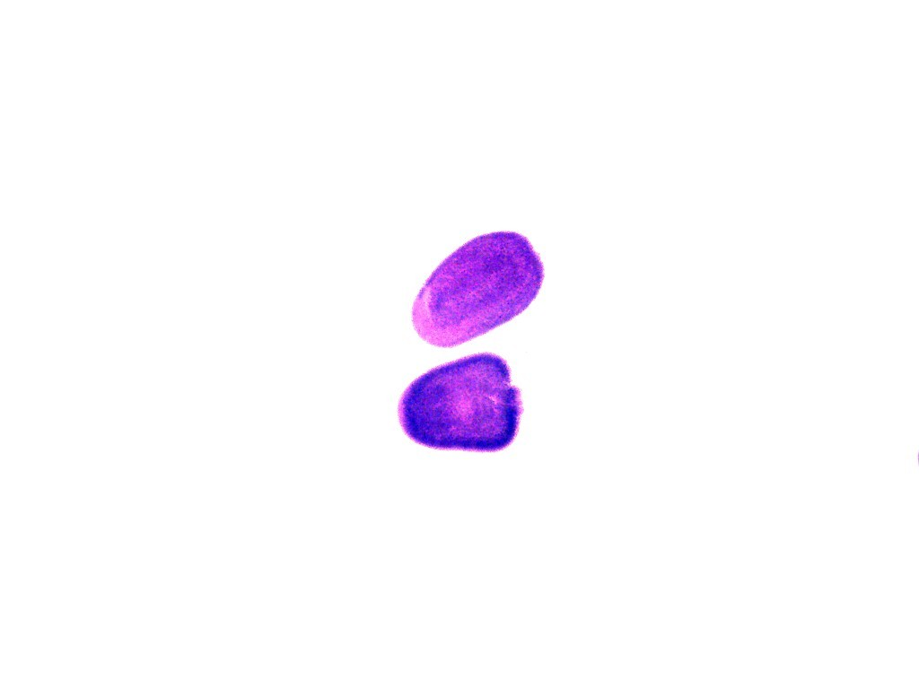 Planula larva from an Aurelia, a common sea jelly. (Medusazoa: Cnidaria (formerly Coelenterata; Scyphozoa). The image is over-exposed on purpose to highlight the coelenteron (or gastrovascular cavity, GVC) of the larva